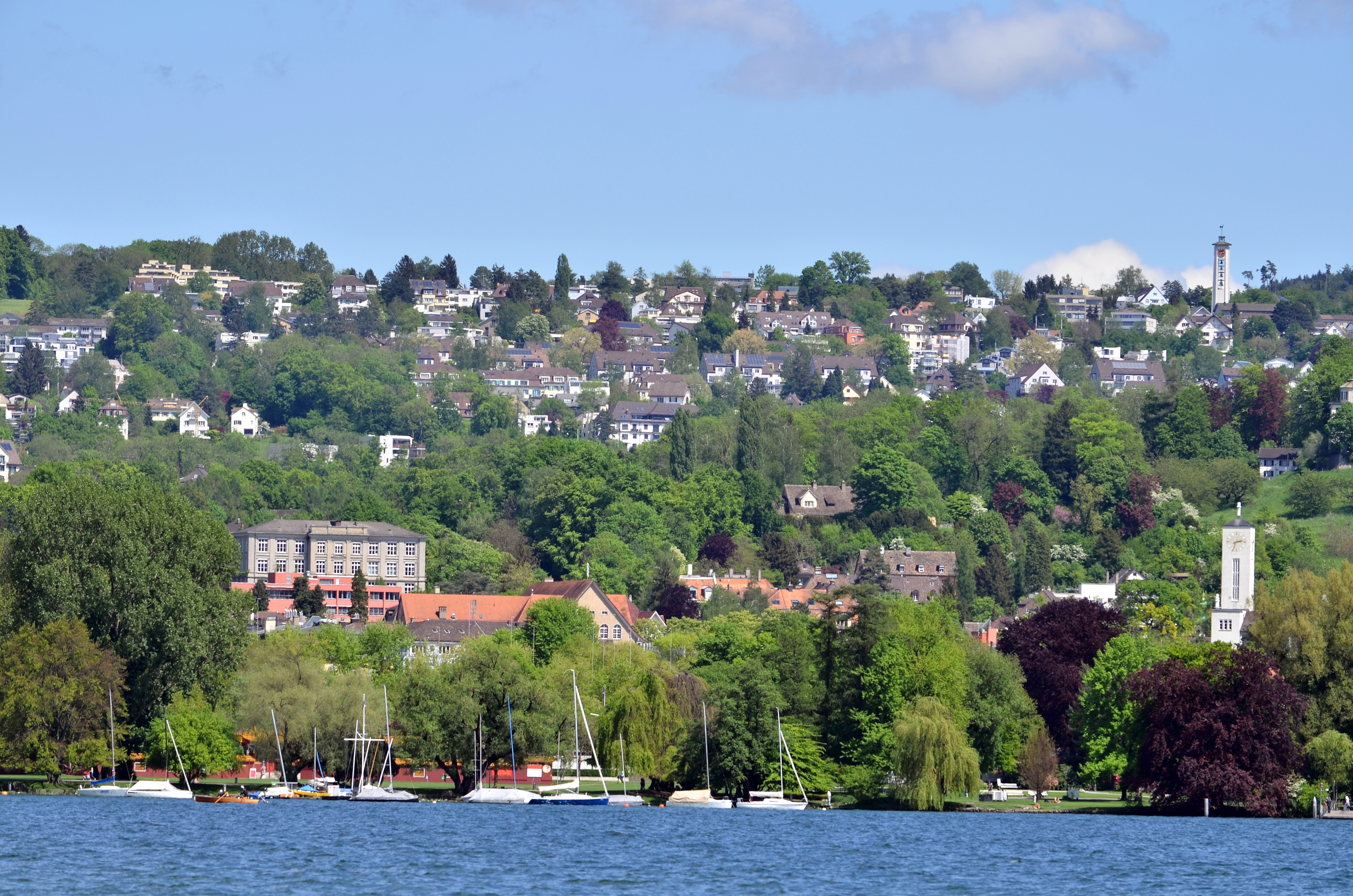 Adlisberg respectively Weinegg and Wikikon and Zürichhorn at Zürichsee, as seen from Zürich-Wollishofen (Switzerland)